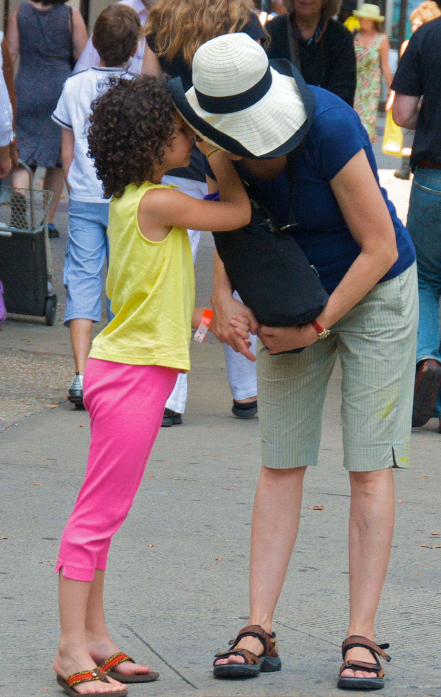 Little girl whispering something in a woman's ear.